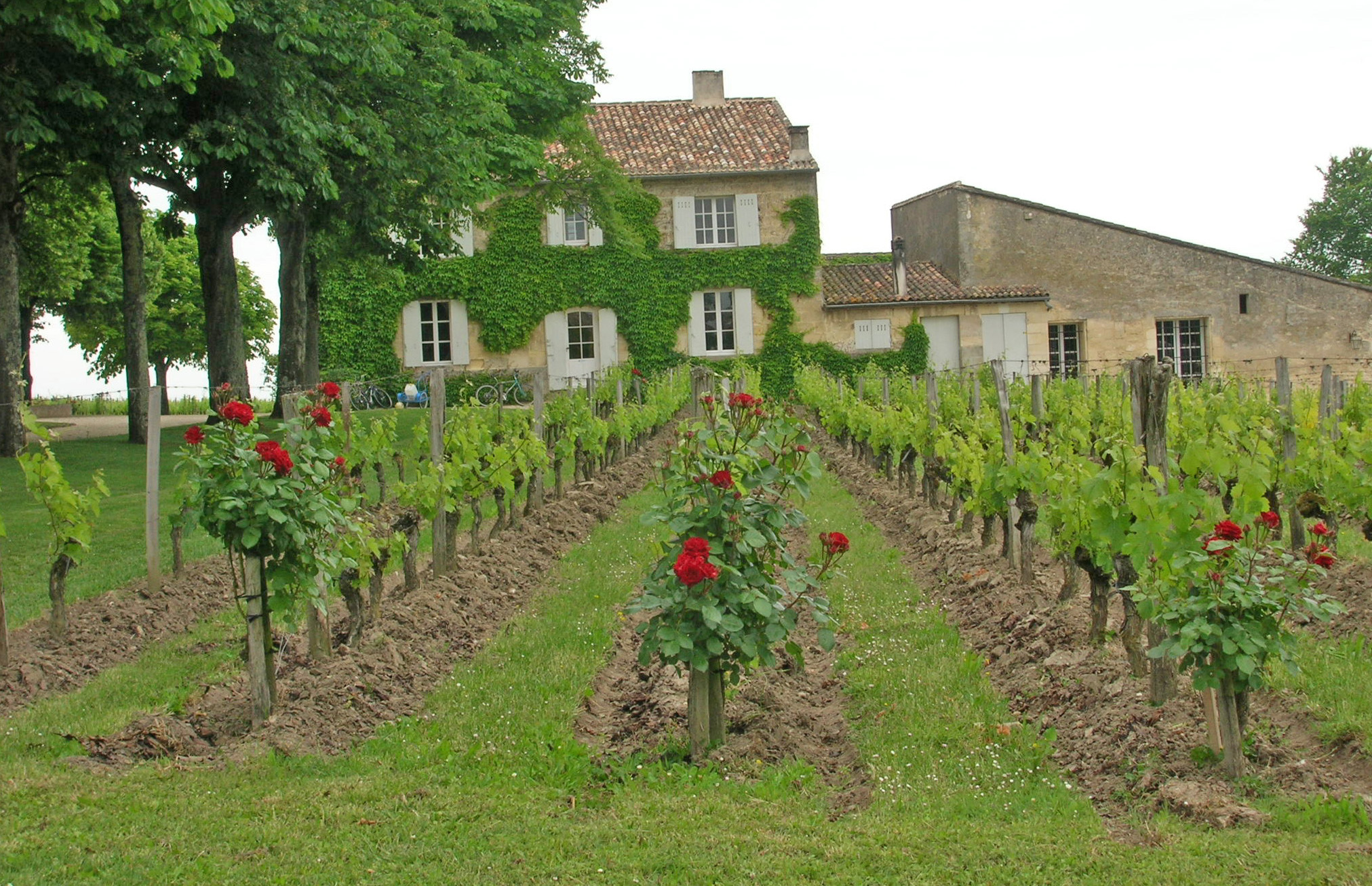 Clos Fourtet vineyard in Saint-Émilion AOC, Gironde (Bordeaux wine region).